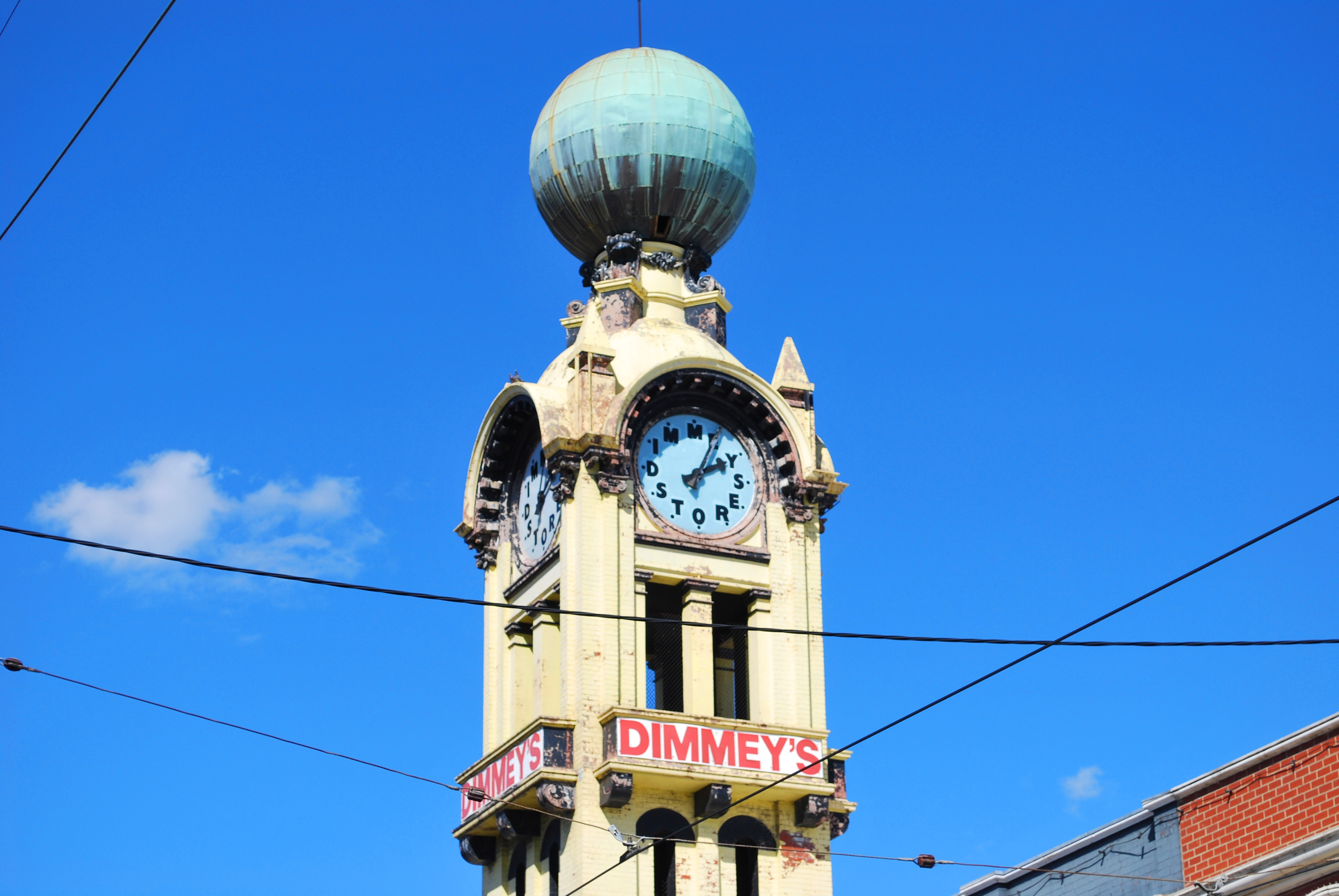 The clock tower on the Dimmey's building in Cremorne, Victoria